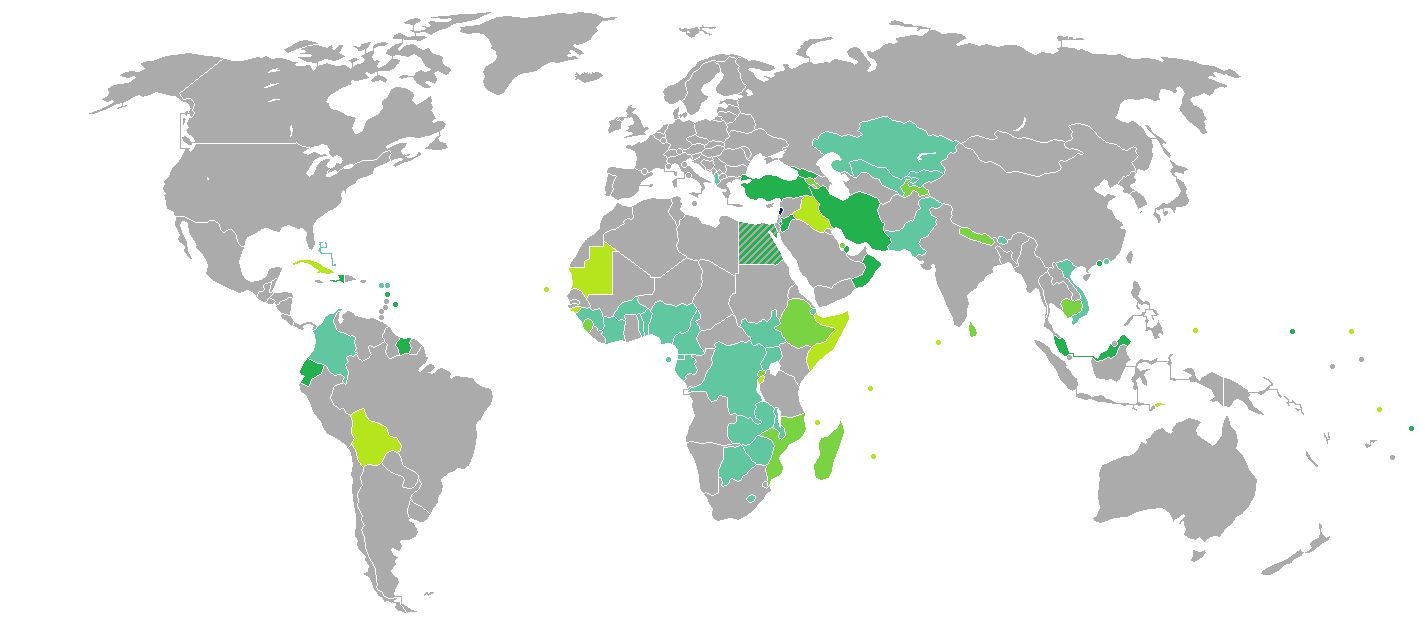 Fully internationally recognized countries and territories with visa-free or visa-on-arrival regime for holders of regular Lebanese passports Type (P) Lebanon Visa is not required for tourism and business purposes Visa is granted on arrival eVisa Visa available both on arrival or online Pre-arranged visa is required and should be obtained from a diplomatic mission